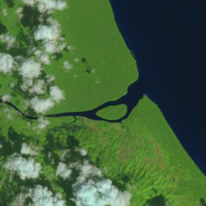 Satellite image of Sarstoon Island taken by Landsat 8 (L8). Landsat Scene Identifier: LC80190492015033LGN00.